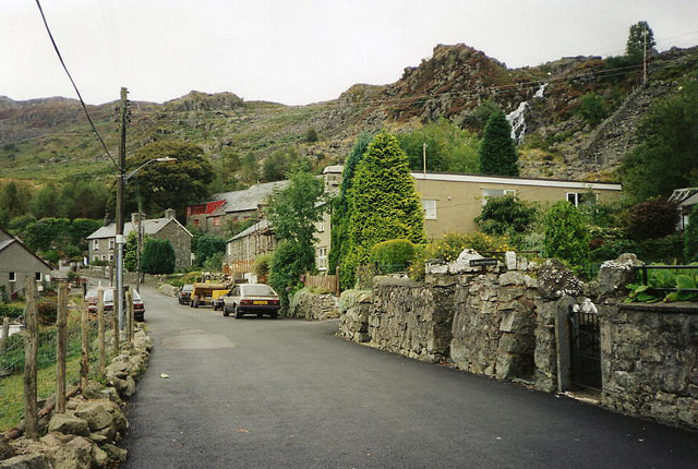 Blaenau Ffestiniog: Bethania. A slate mill, then a woollen mill, Pant-yr-ynn, now a house conversion, survives above the street on the right-hand side. It was powered by the stream that provides the waterfall and the overshot waterwheel survives